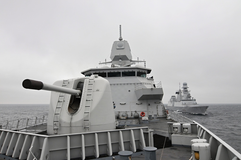 The 'Big Ships' cooperating at sea. The flagship of the exercise, Dutch frigate HNLMS De Ruyter, conducts “Replenishment at Sea” approaches with the Italian destroyer ITS Caio Duilio. Exercise Steadfast Jazz 2013 is taking place from 1-9 November in a number of Alliance nations including the Baltic States and Poland. The purpose of the exercise is to train and test the NATO Response Force, a highly ready and technologically advanced multinational force made up of land, air, maritime and special forces components that the Alliance can deploy quickly wherever needed. The Steadfast series of exercises are part of NATO’s efforts to maintain connected and interoperable forces at a high-level of readiness.